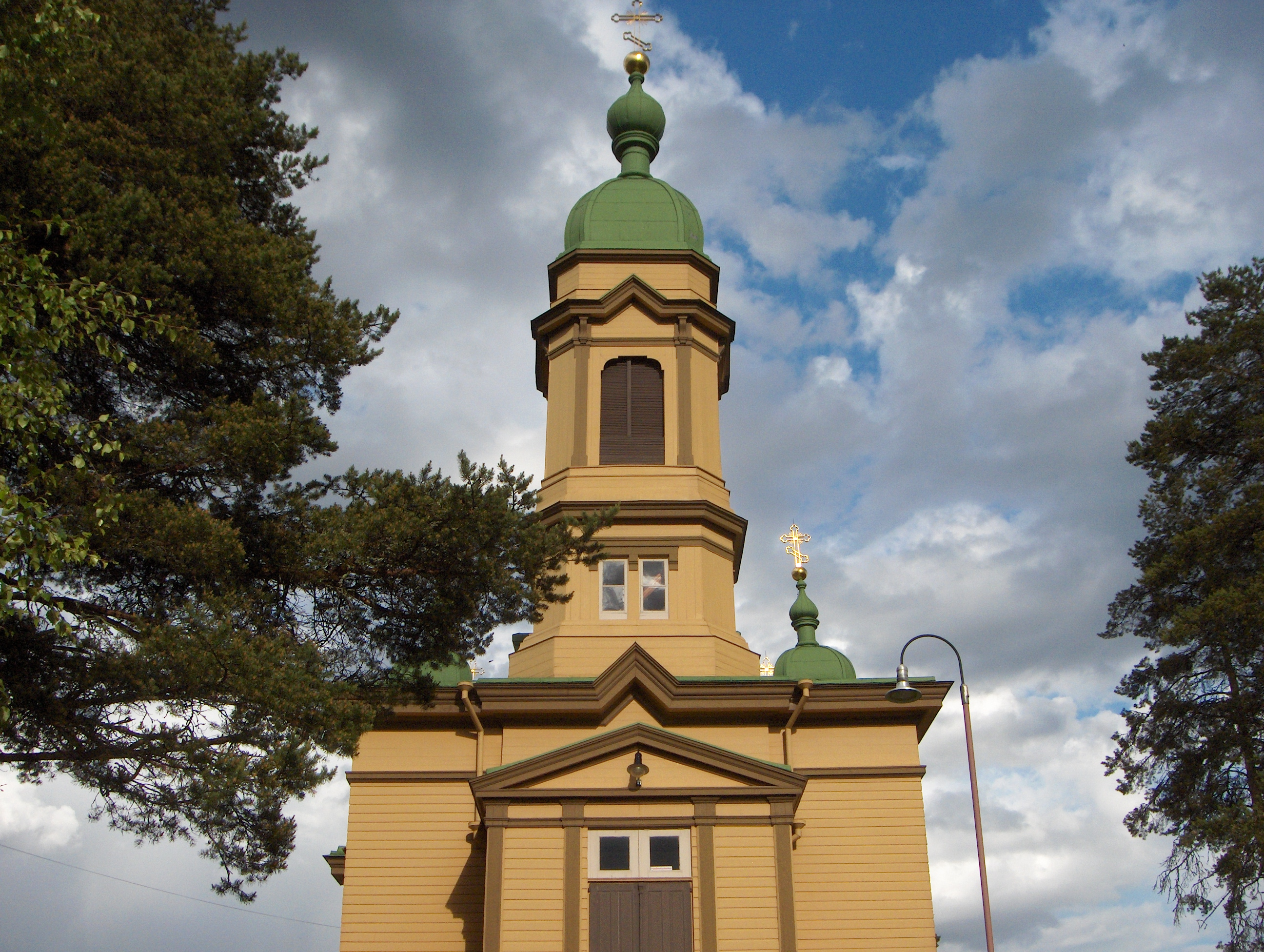 Church of Saint Prophet Elijah in Ilomantsi, Finland